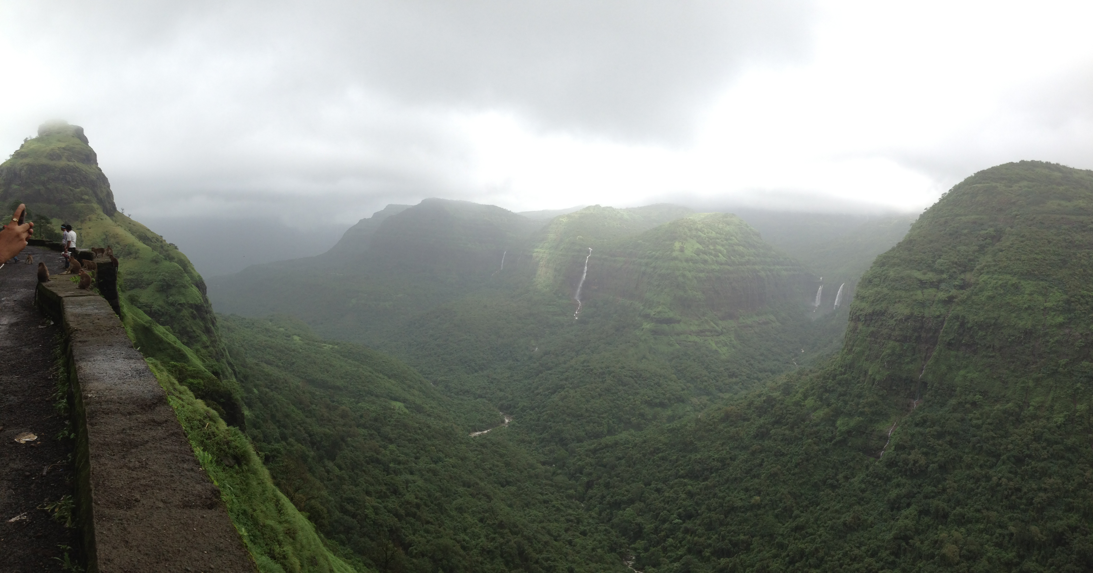 View from Varandha Ghat Top